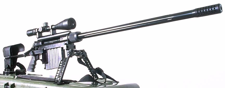 Windrunner M96 .50 BMG Rifle